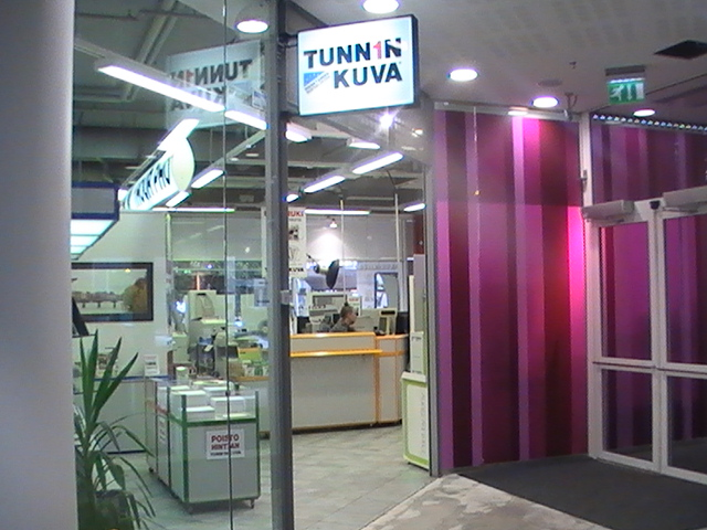 Tunnin Kuva photo shop in IsoKarhu shopping center at Pori, Finland.